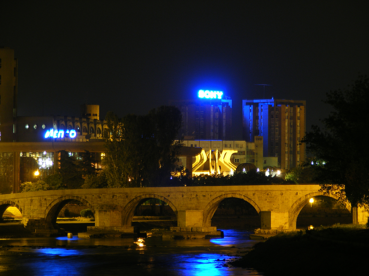 The Stone Bridge in Skopje, Republic of Macedonia at night.